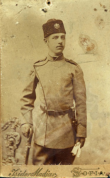 Yordan Tachev